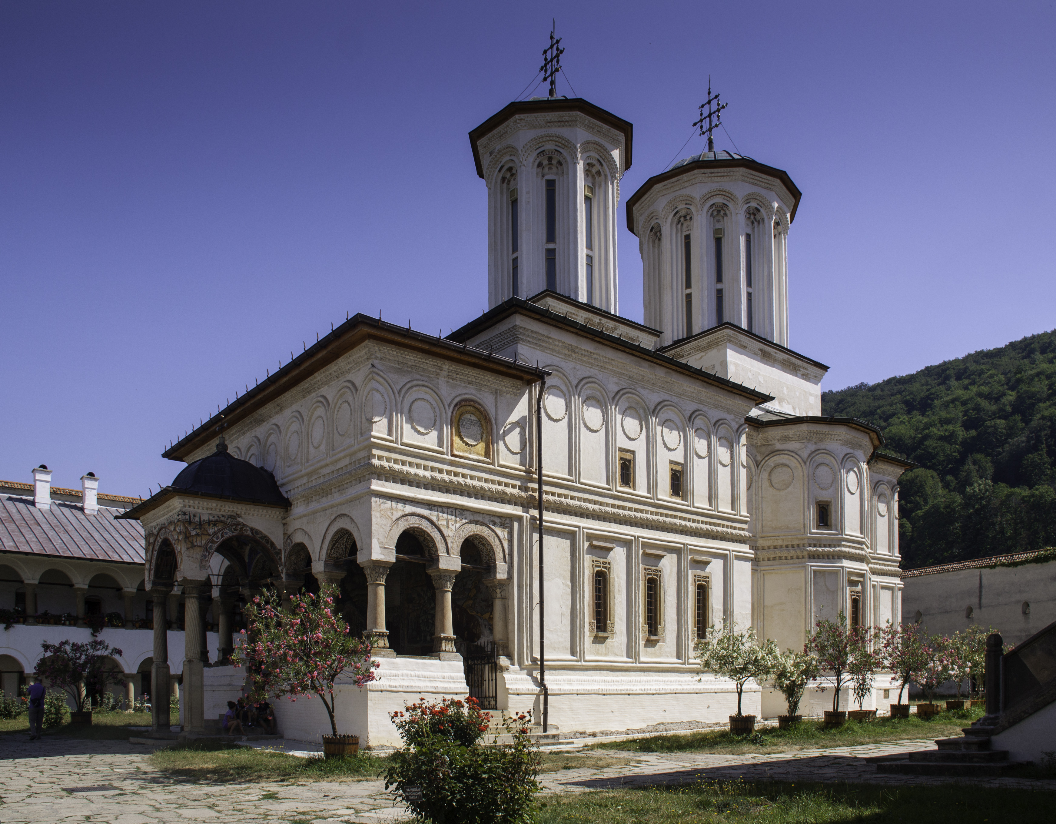 Horezu Monastery, Vâlcea county, Romania: the main church.